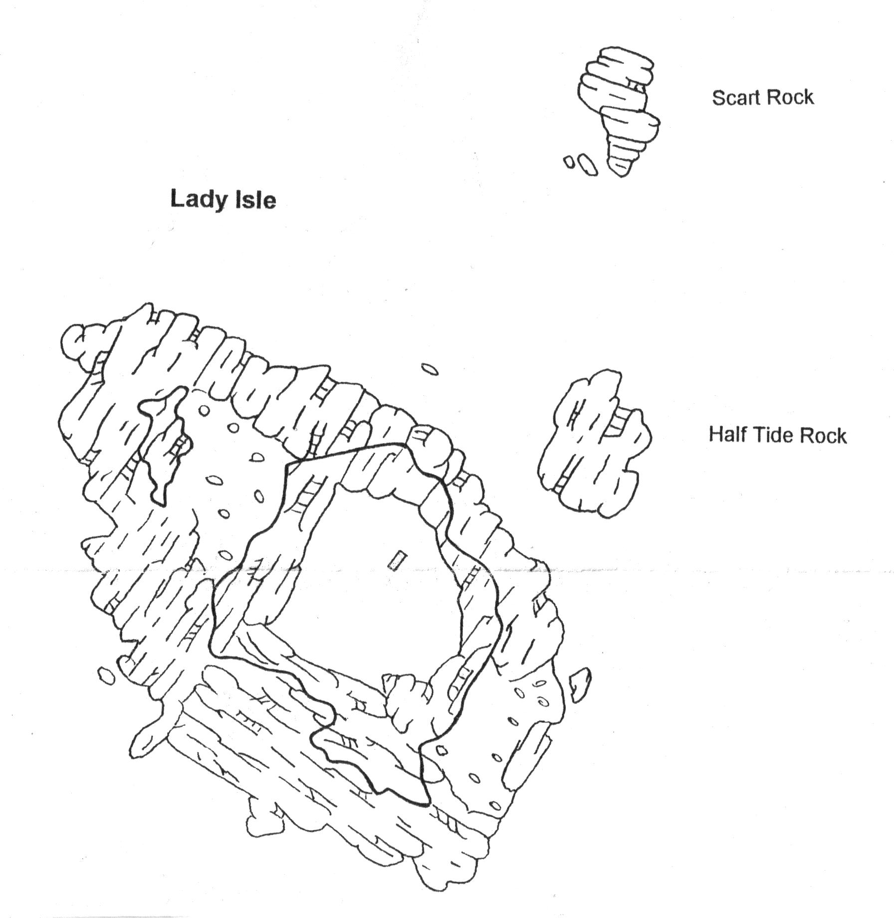 A map of Lady Isle, South Ayrshire, Scotland.